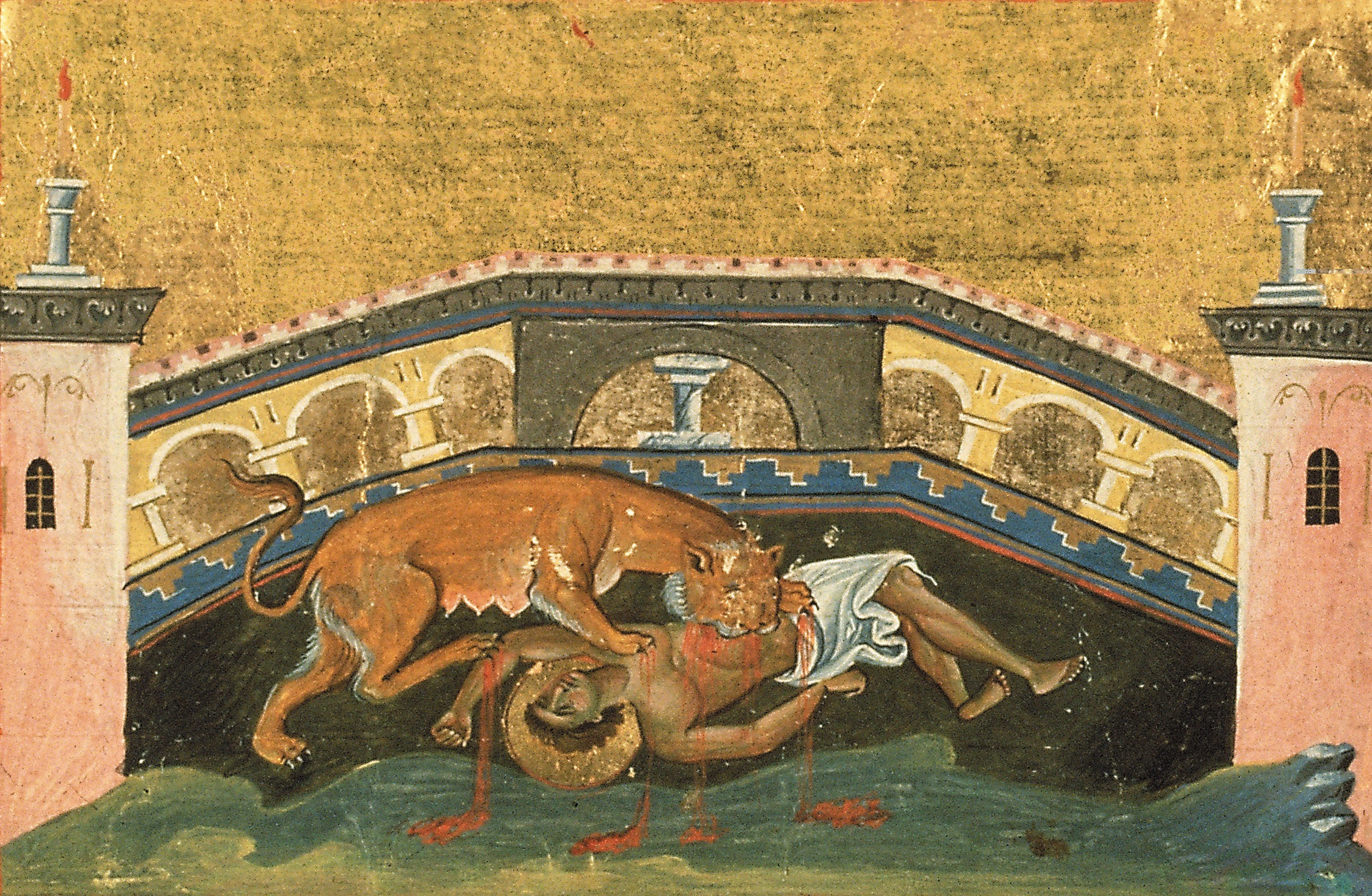 Basil of Ancyra 22 (04.04) მარტი